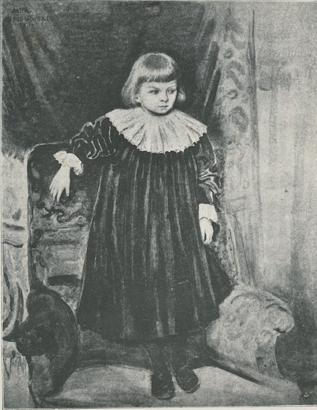 It's my own faithful copy of a reproduction of Stanisław Masłowski (1853-1926) - Maria Ponikowska watercolor portrait from "Tygodnik Ilustrowany" Magazine, 1899, vol. I, p.305.